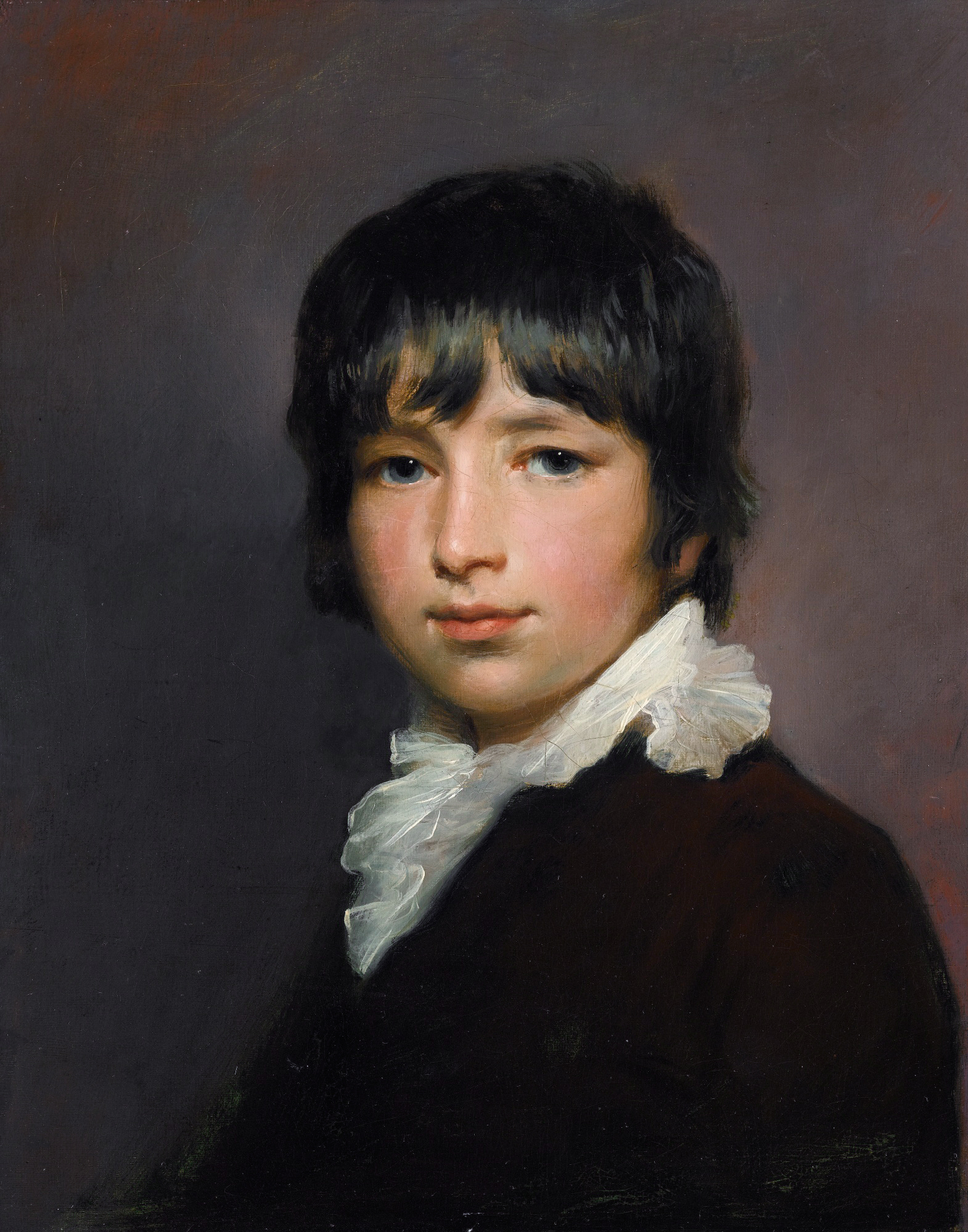 Henry Monro (1791-1814) oil on canvas 45 x 36 cm